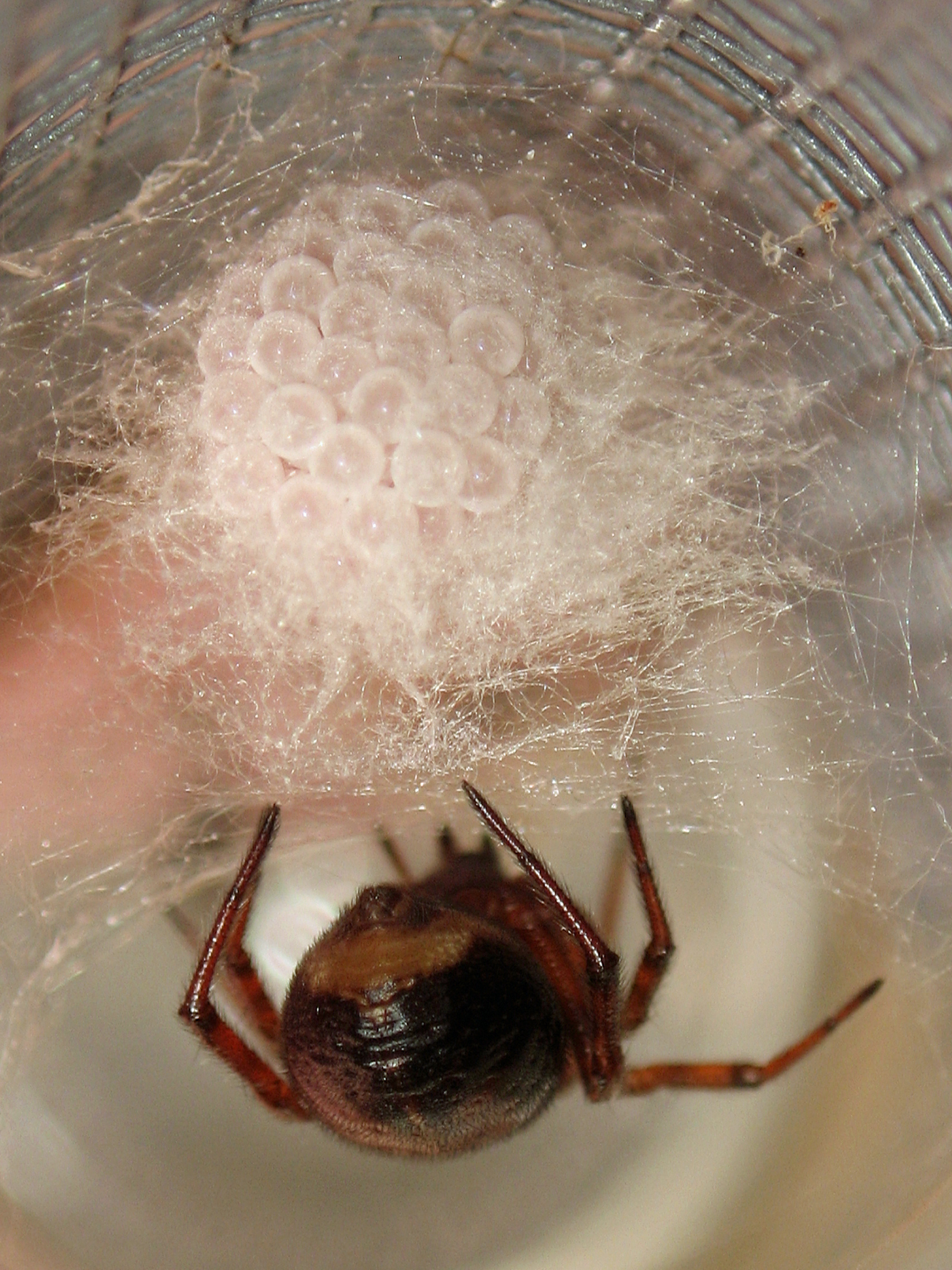 Image shows the egg sac of a female Steatoda bipunctata. Native to Europe, this species is also now found in North America. This specimen was collected in King County, Washington, USA, on the side of a garage at night and the eggs were laid in captivity.